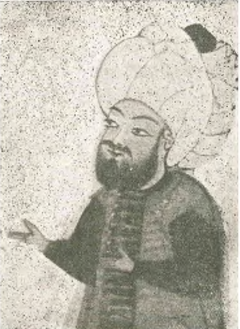 Ahmed Naksi -Şakayık-ı Numaniye Tercümesi-Taskopruluzade